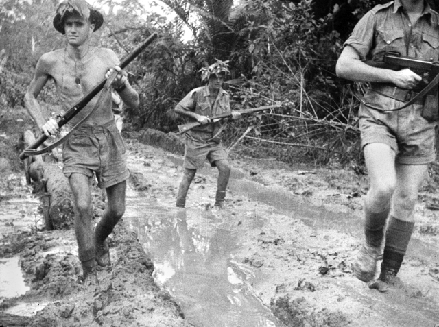 AWM Caption: Australian troops plough through the mud at Milne Bay, New Guinea, shortly after the unsuccessful Japanese invasion attempt.